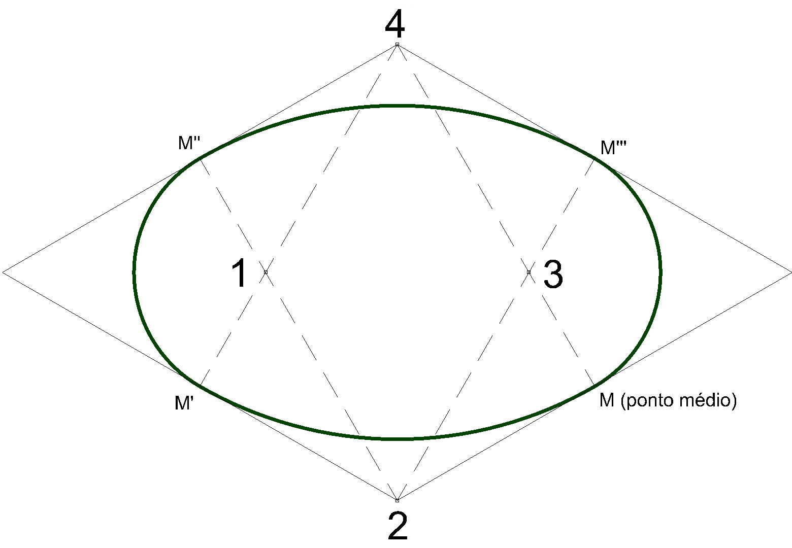 Isocircle